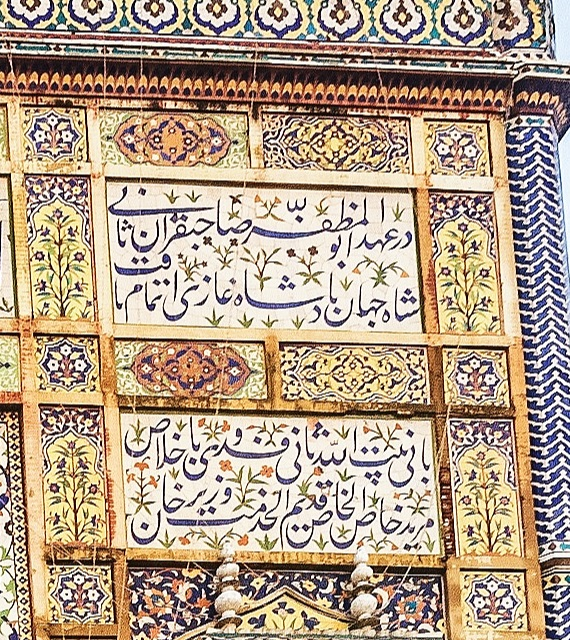 Right-side Fresco of Wazir Khan Mosque's Entrance Door, Walled City of Lahore